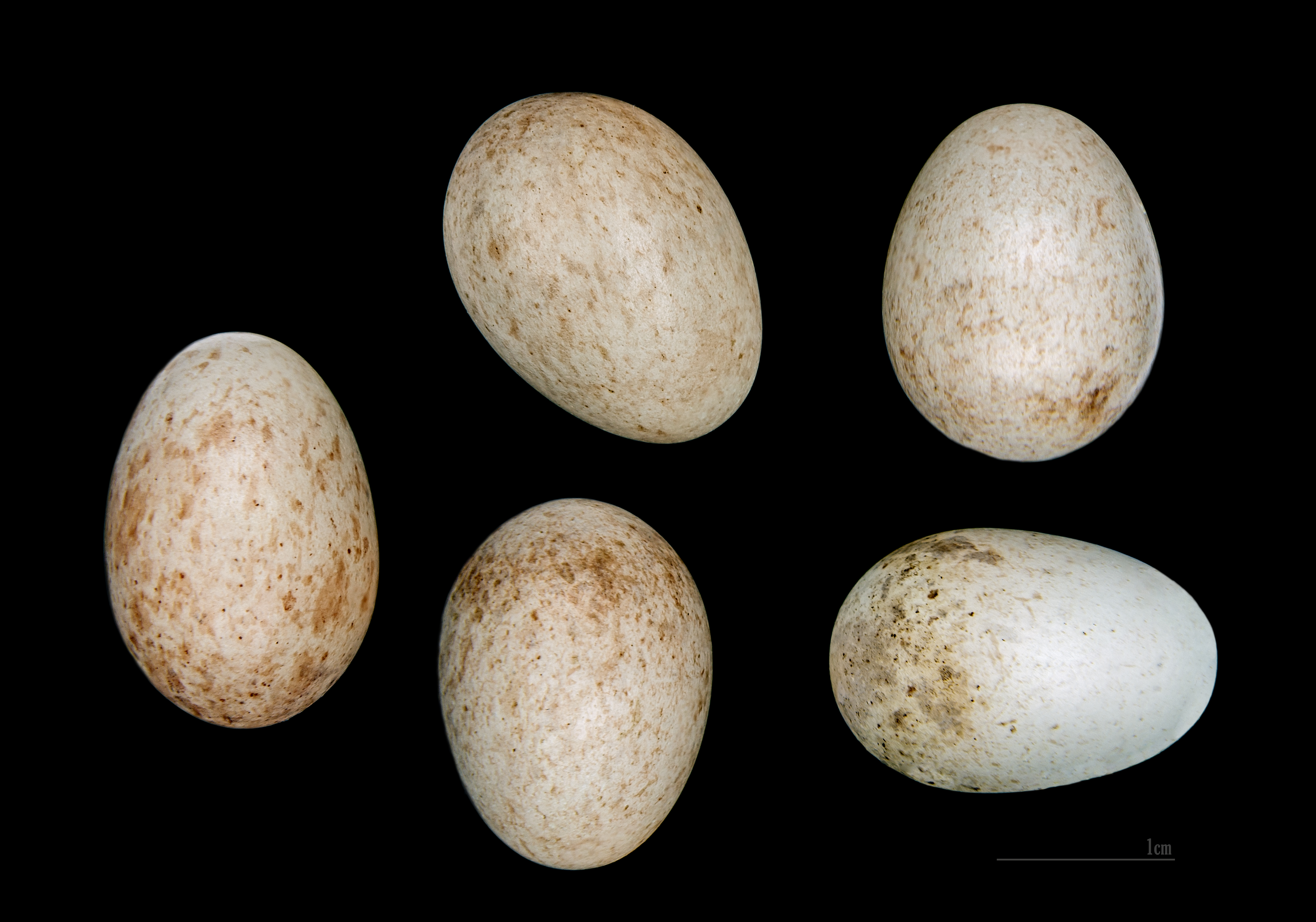 Egg of European Robin. Collection of Henri Heim de Balsac /Jacques Perrin de Brichambaut.